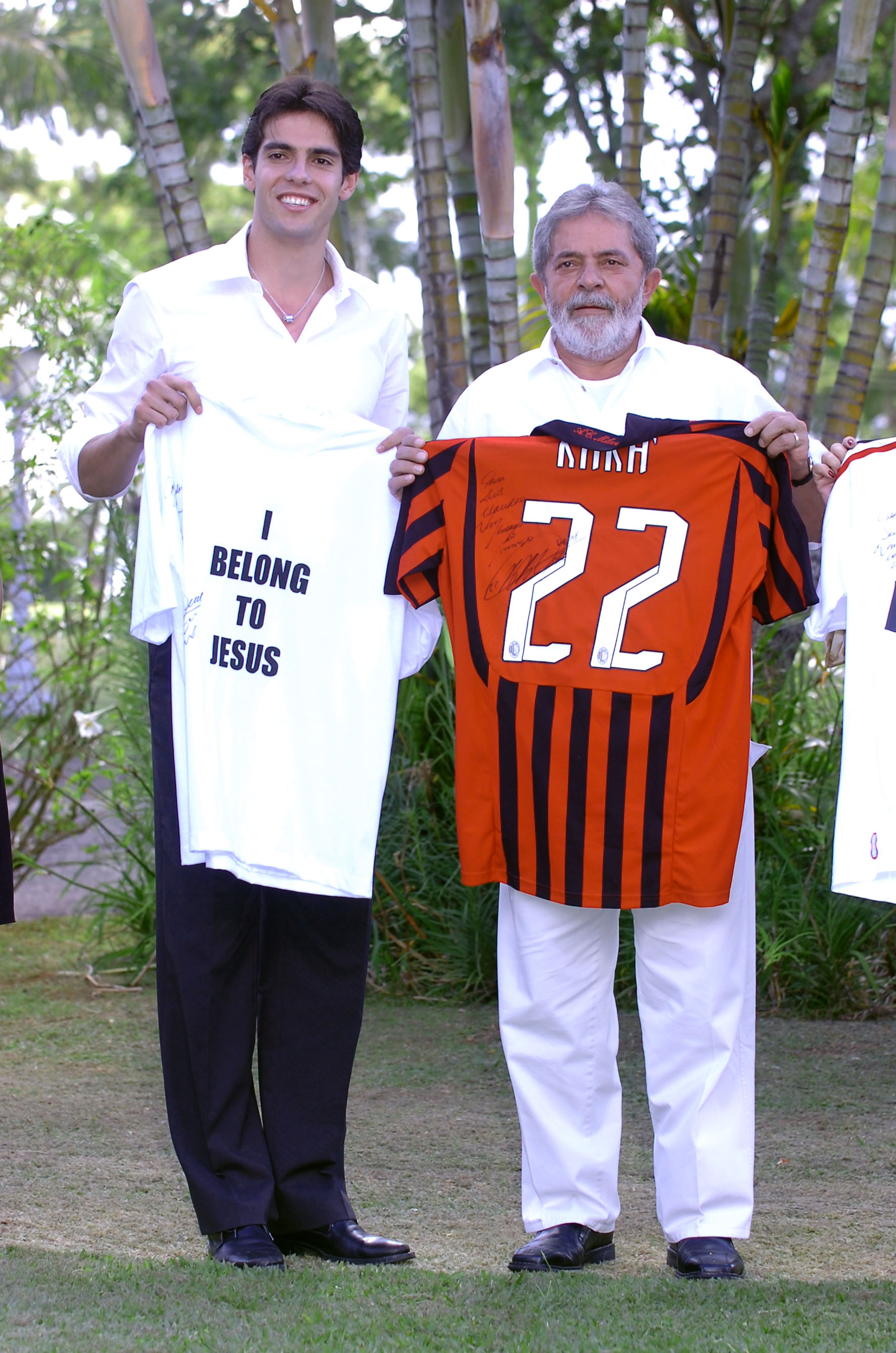 Ricardo Izecson dos Santos Leite, better known as Kaká, with the president of Brazil, Luís Inácio Lula da Silva, in Brasília.